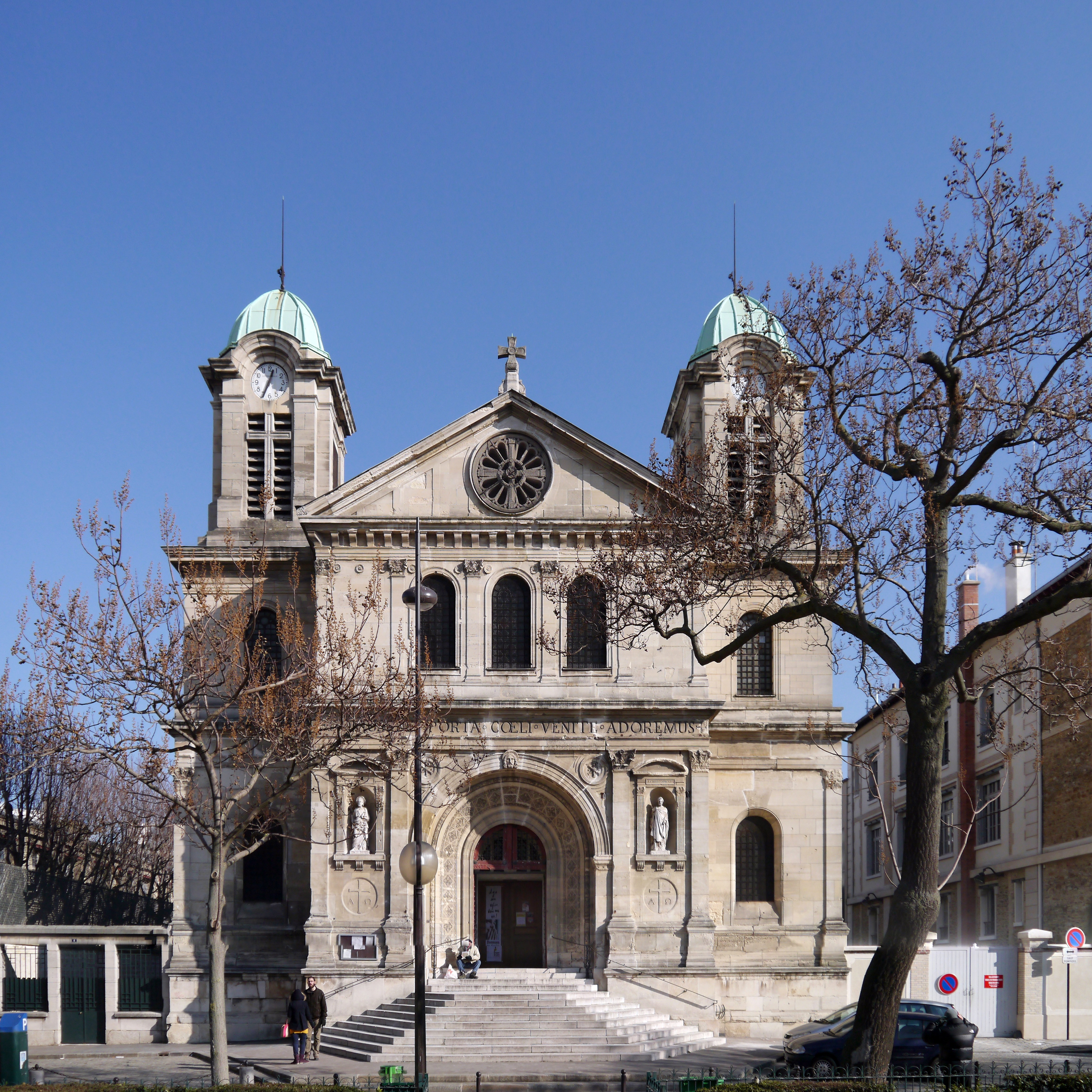 Église Saint-Jacques-Saint-Christophe de la Villette, Paris. View from the square de la place de Bitche.